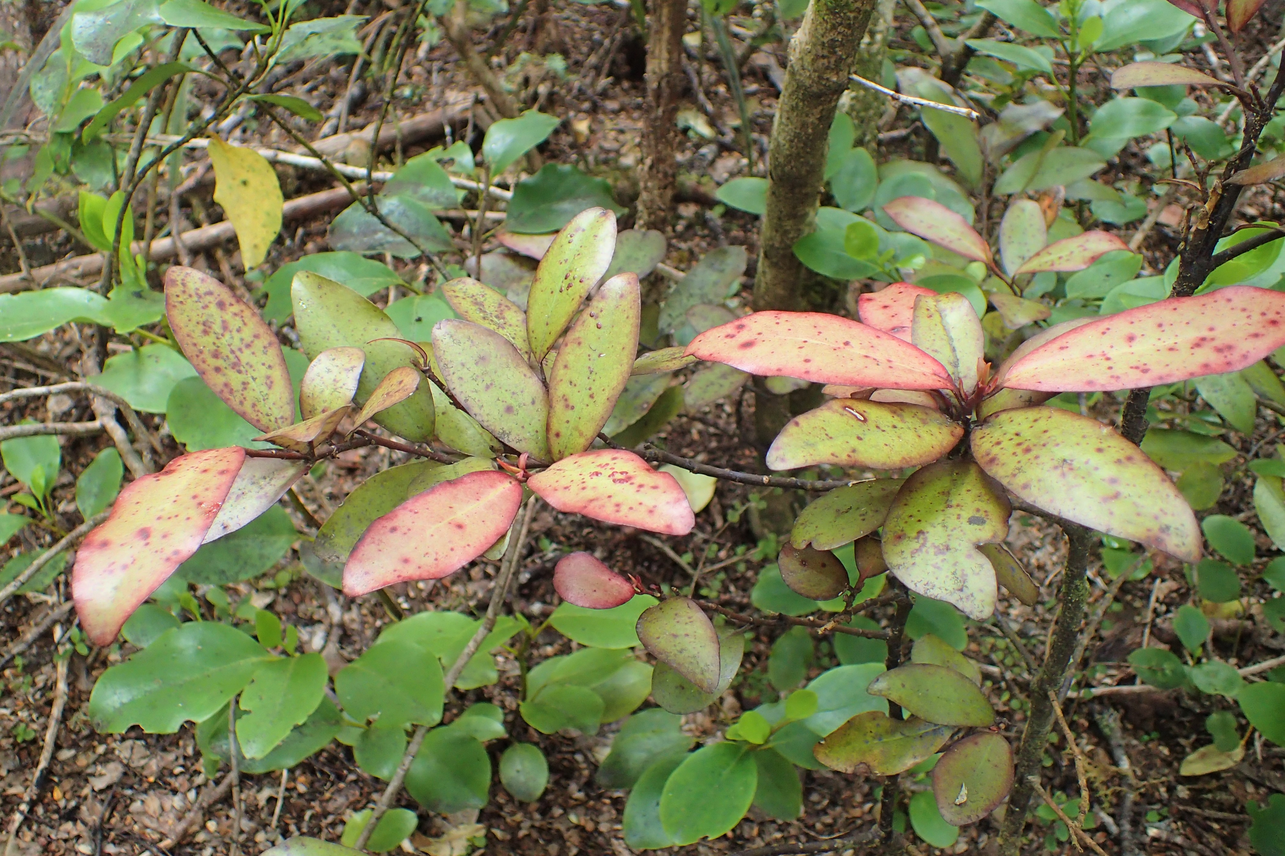 Pseudowintera colorata in Whakapapa, Waikato (New Zealand)